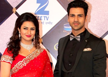 at Zee Rishte Awards